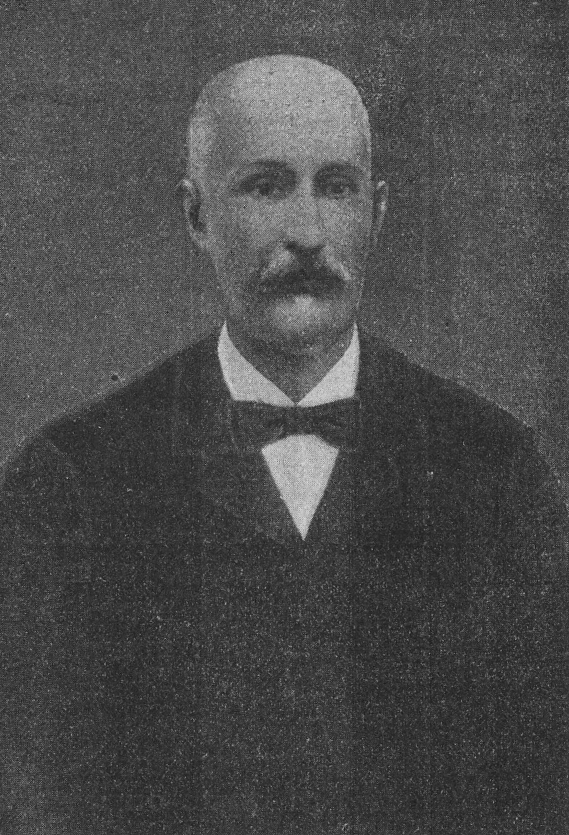 Merchant Konstantin Vučković, from whose foundation Matica Srpska was founded in Dubrovnik. Srpski (latinica): Trgovac Konstantin Vučković, iz čije zadužbine je osnovana Matica srpska u Dubrovniku.